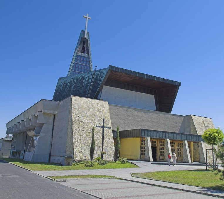 The church of Saint Hyacinth in Opole-Kolonia Gosławicka, Poland